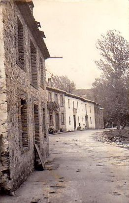 Old street called CALLE DE LAS ERAS in a little village in Leon - Spain Antigüa calle de las Eras en el pequeño pueblo de Santiago del Molinillo - Leon - España